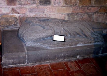 Effigy (presumably vandalized at Dissolution or Civil War) of William III de Ferrers, 5th Earl of Derby (c. 1193 – 28 March 1254), Merevale Abbey parish church, North Warwickshire. The handwritten card states: "The 13th century knight, presumed to be William, Earl Ferrers of Chartley, who died in St. Neot's after a fall from his bier in 1254."